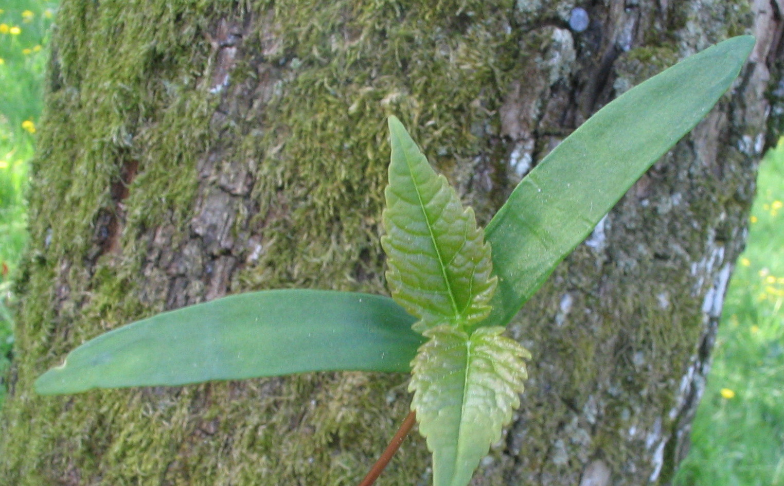 Two cotyledons of Acer pseudoplatanus